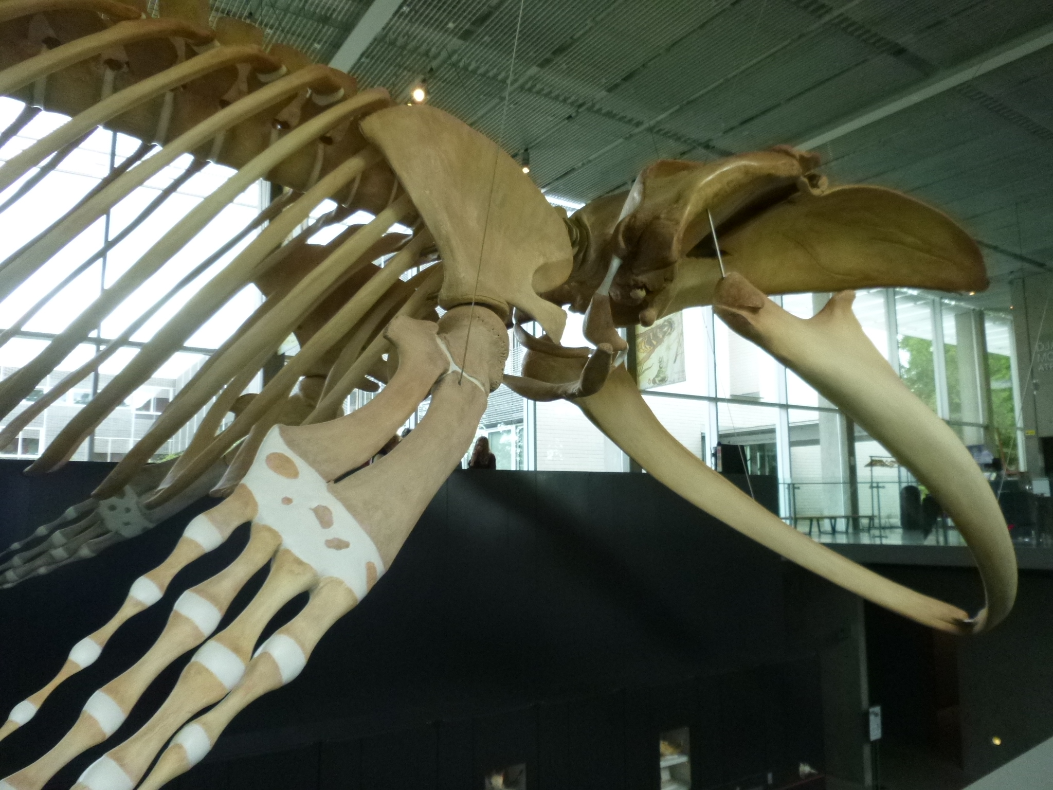 Whale Skeleton at the University of British Columbia's Beaty Biodiversity Museum, in Vancouver, British Columbia, Canada.